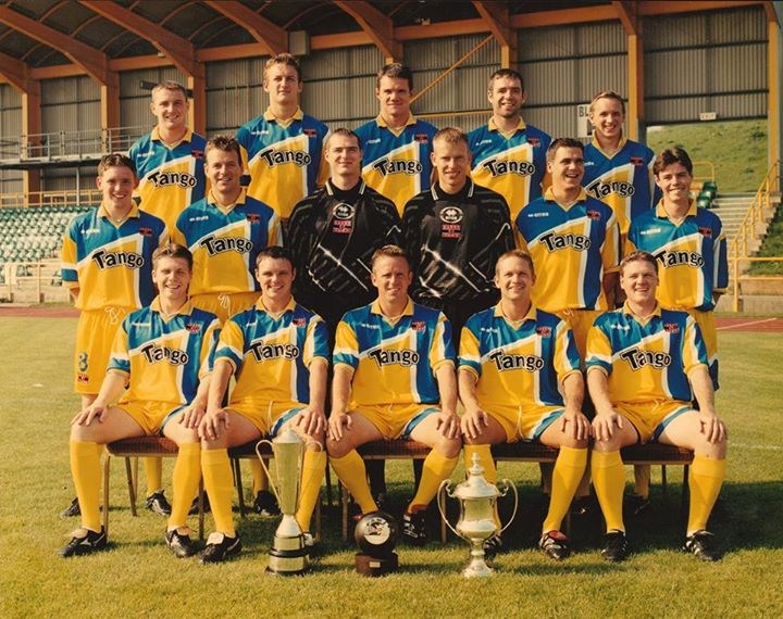 Barry of 1999 with League of Wales Cup, FAW Premier Cup and Welsh Premier trophy.